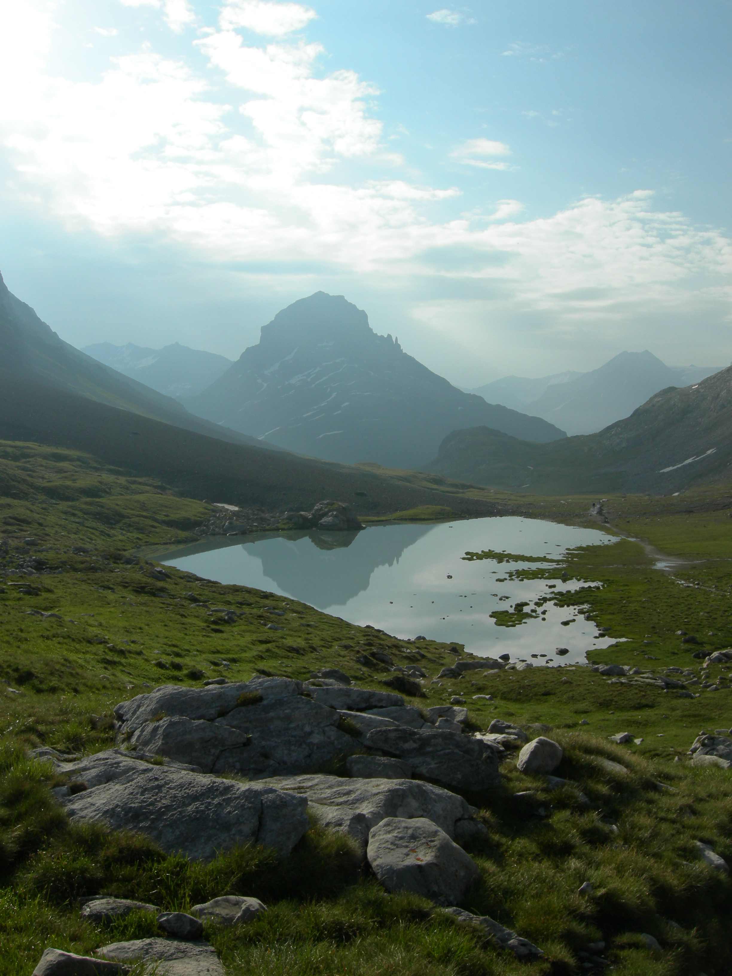 Picture taken by myself while on a hike from the Refuge du Col de la Vanoise to the Refuge de l'Arpont.